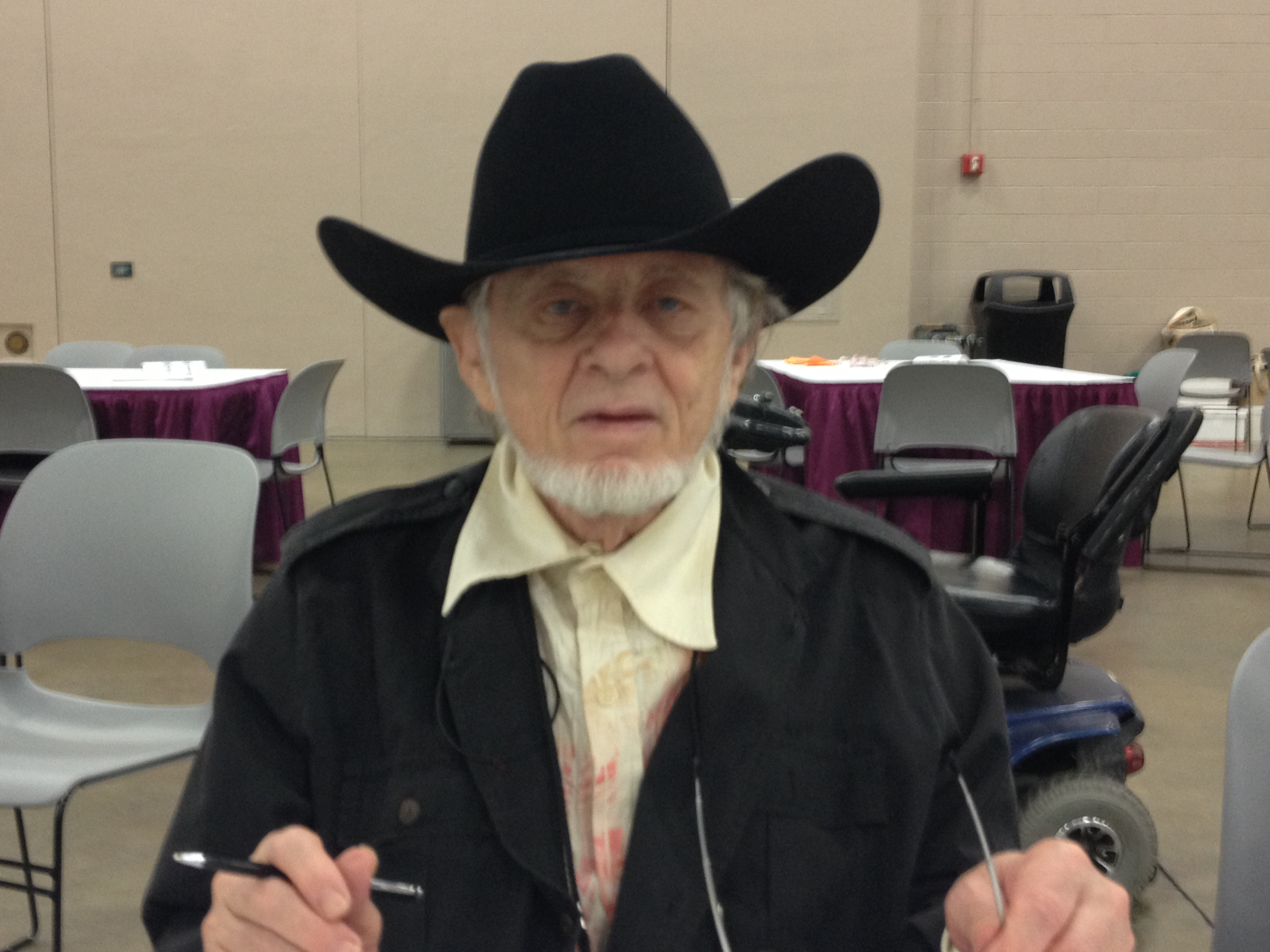 Author Norman Spinrad during a scheduled autograph signing session at LoneStarCon 3, the 71st World Science Fiction Convention, held in San Antonio, Texas.